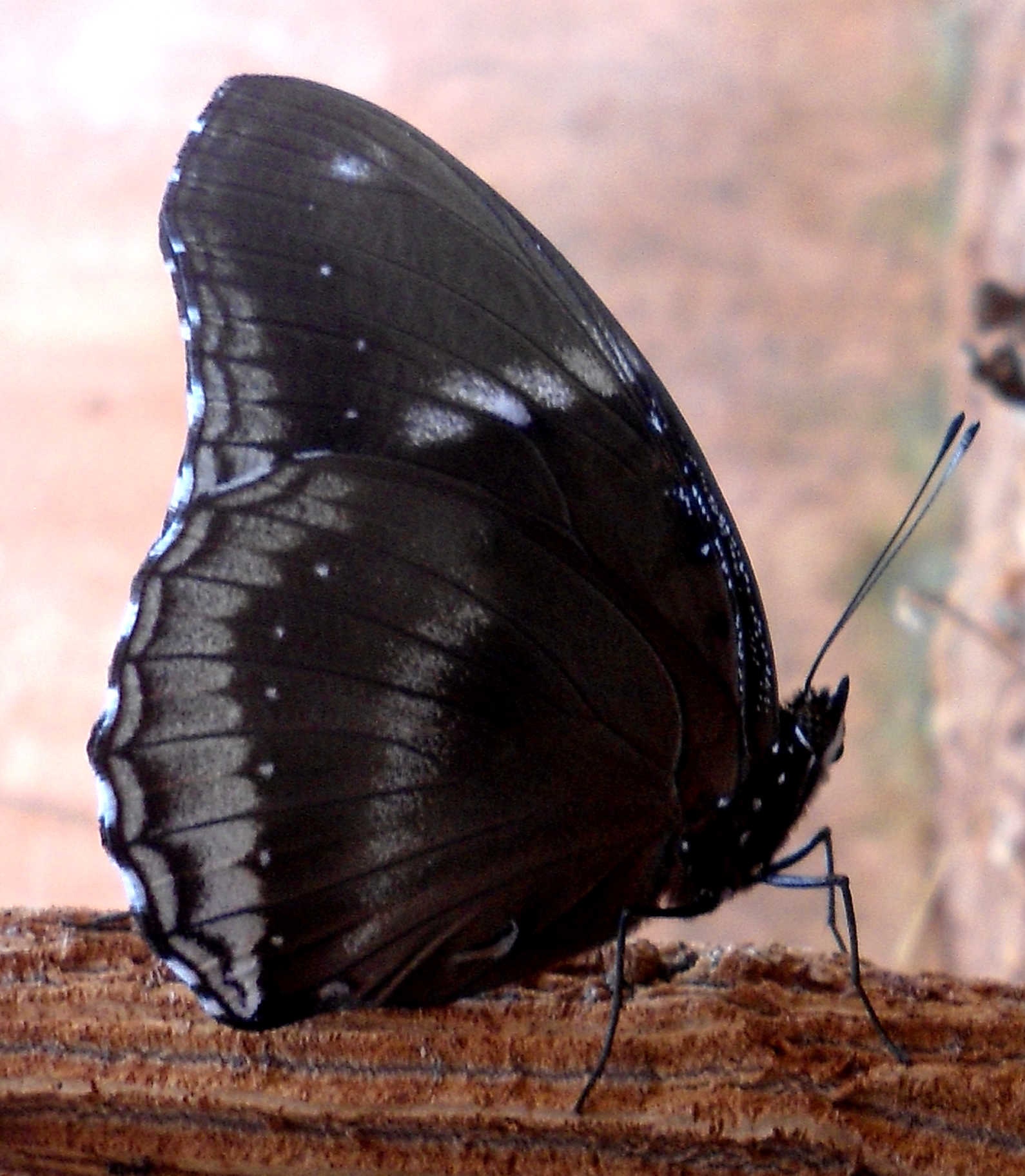 Great Eggfly Hypolimnas bolina at Madhurawada, Visakhapatnam